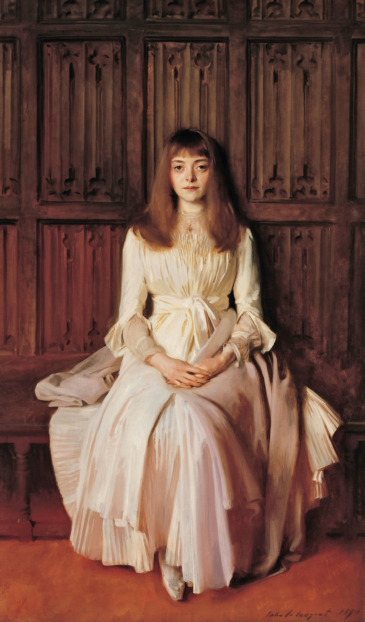 Miss Elsie Palmer John Singer Sargent -- American painter 1889-90 Colorado Springs Fine Arts Center Oil on canvas 190.8 x 114.6 cm (75 1/8 x 45 1/8 in.) Jpg: local source